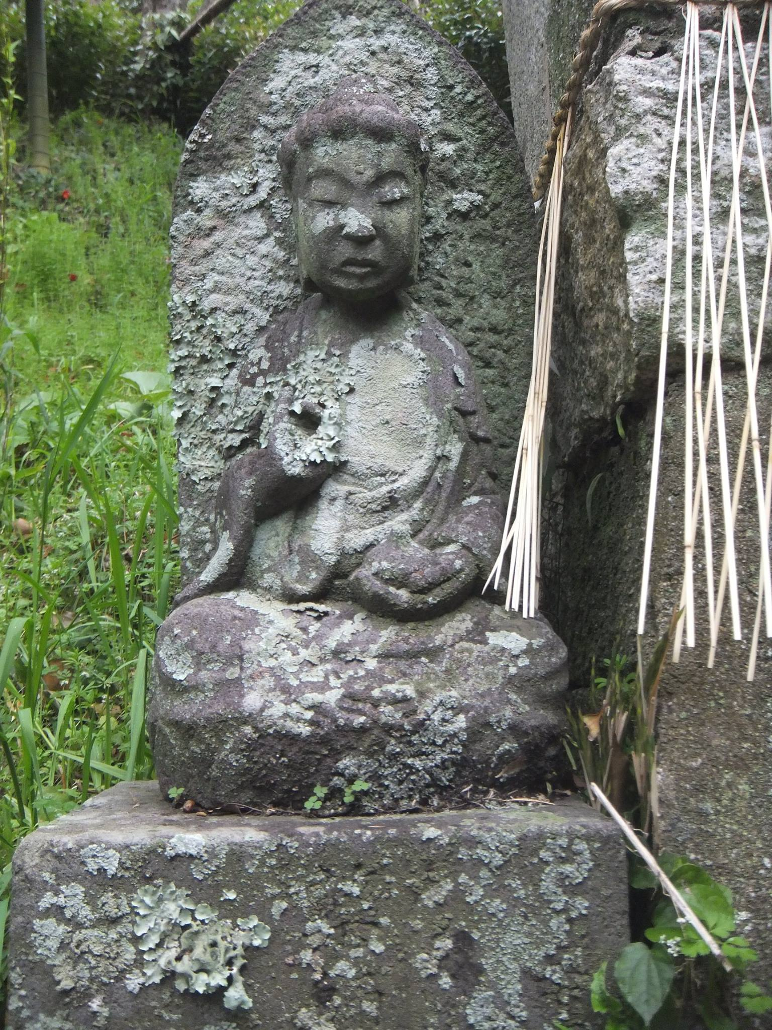 Yakushi-nyorai (skrt. Bhaisajyaguru) on mount Imayama, Imajuku, Fukuoka, Japan